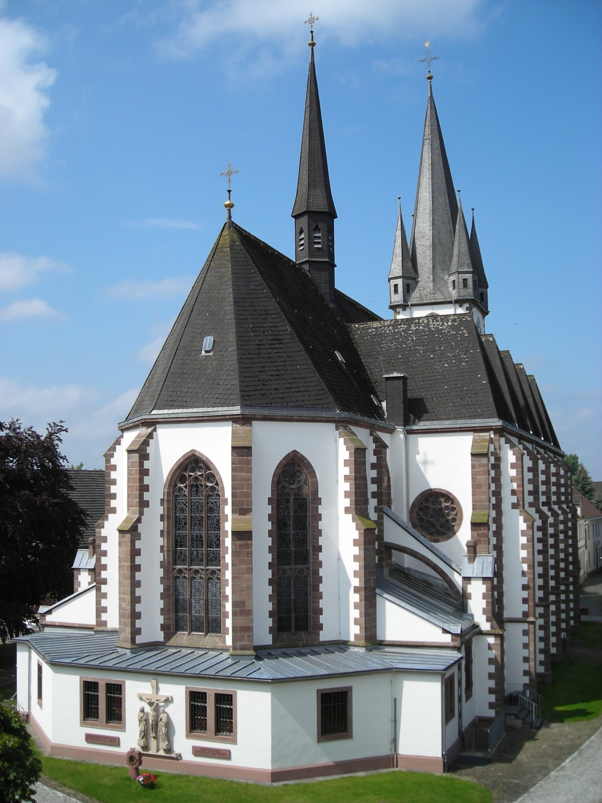 rear view of St. Martin Church in Bad Lippspringe, Germany